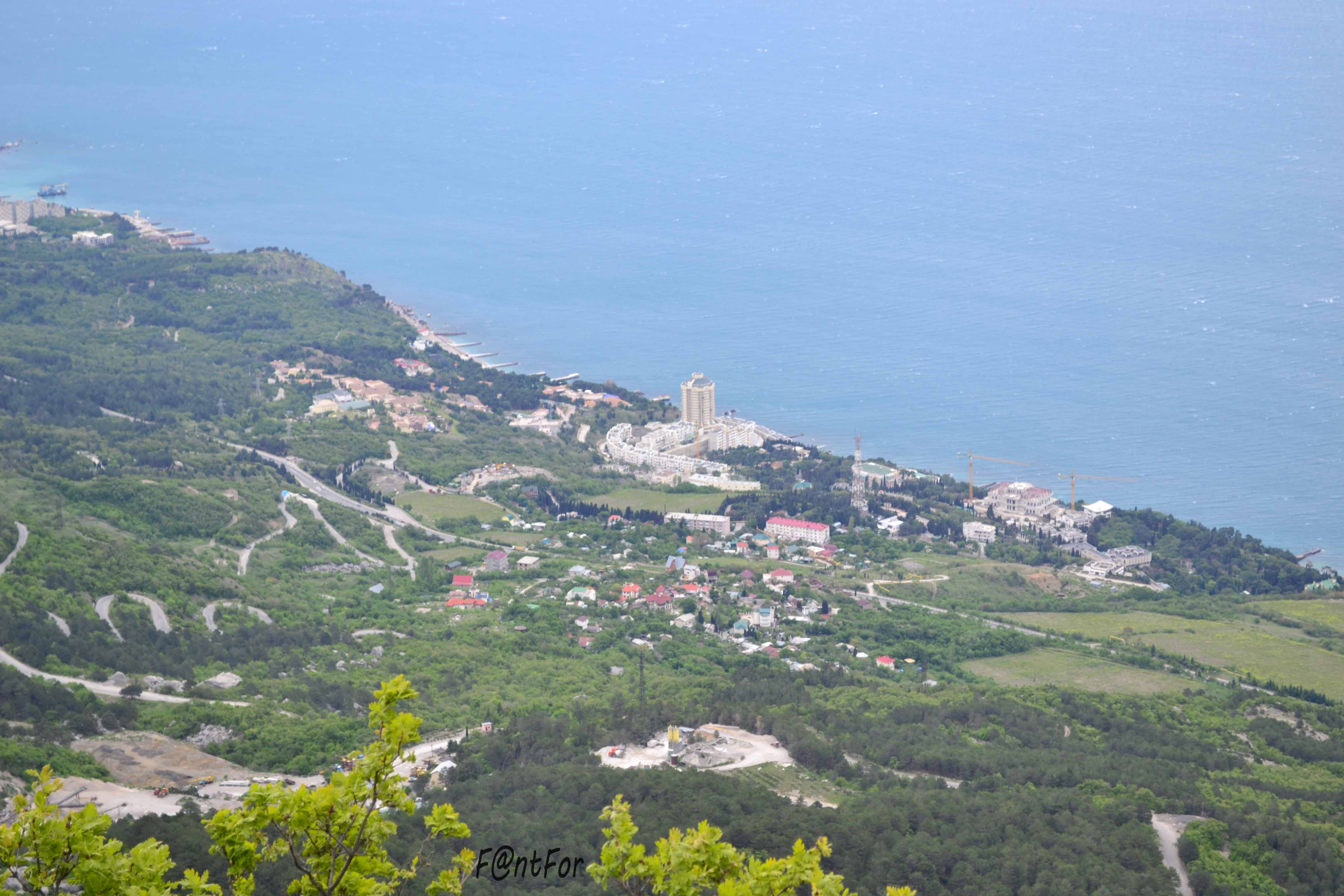 Village Parkovoe, Yalta, Crimea